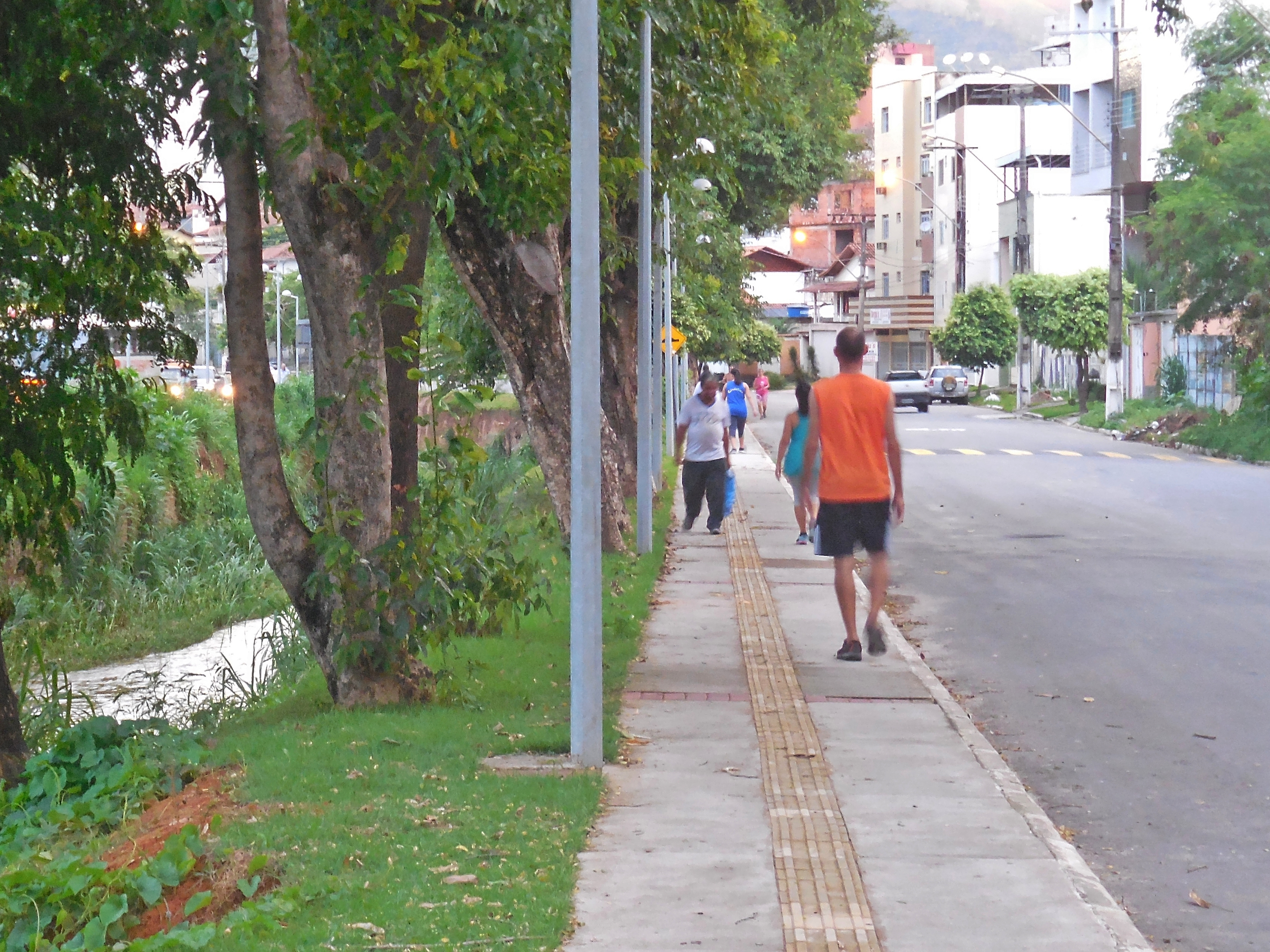 Walking path on the Caladão stream in the Julita Pires Avenue, Santa Helena neighborhood, in Coronel Fabriciano, Minas Gerais, Brazil.